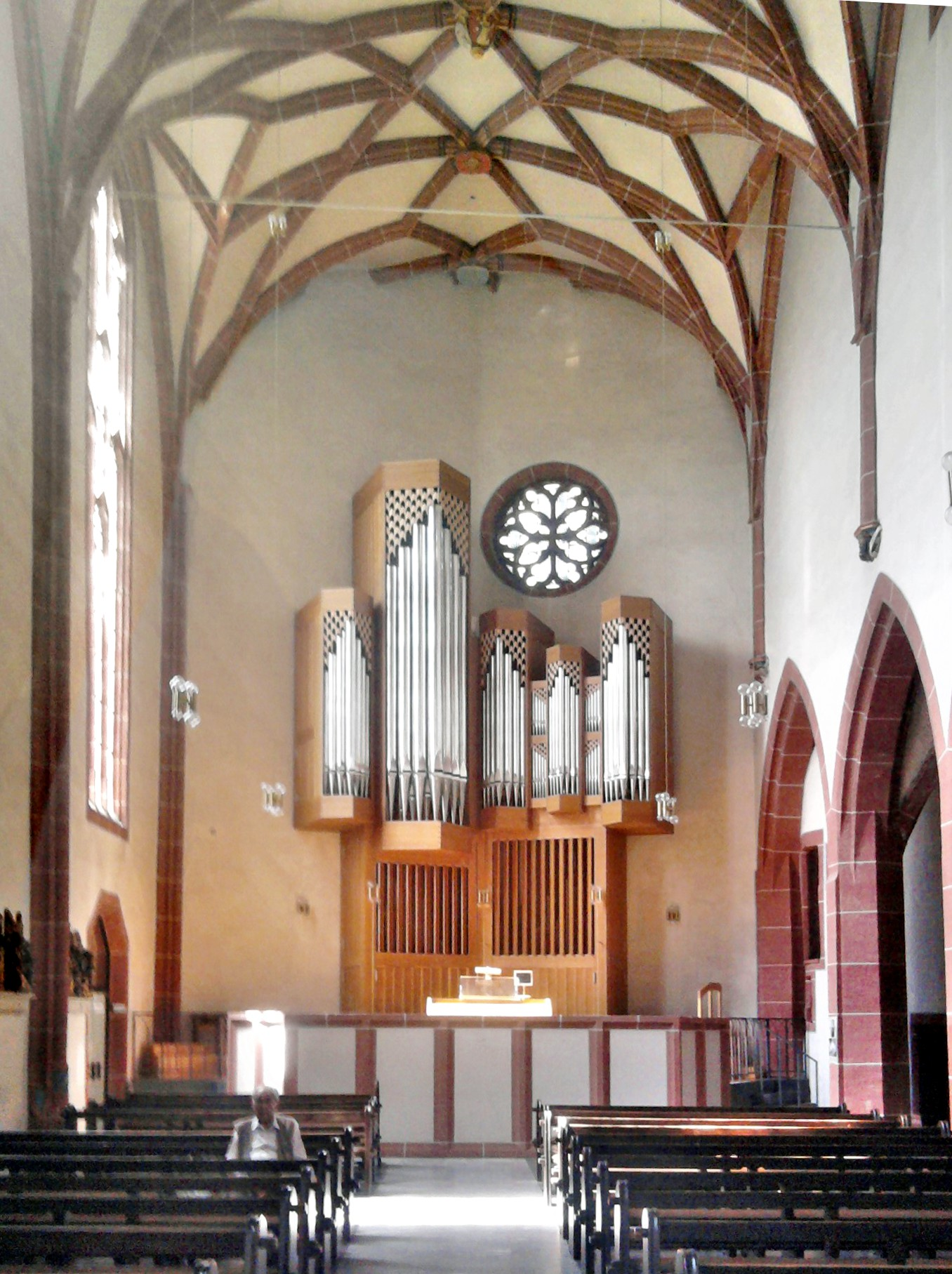 Tzschöckel-Orgel in St. Antonius Trier